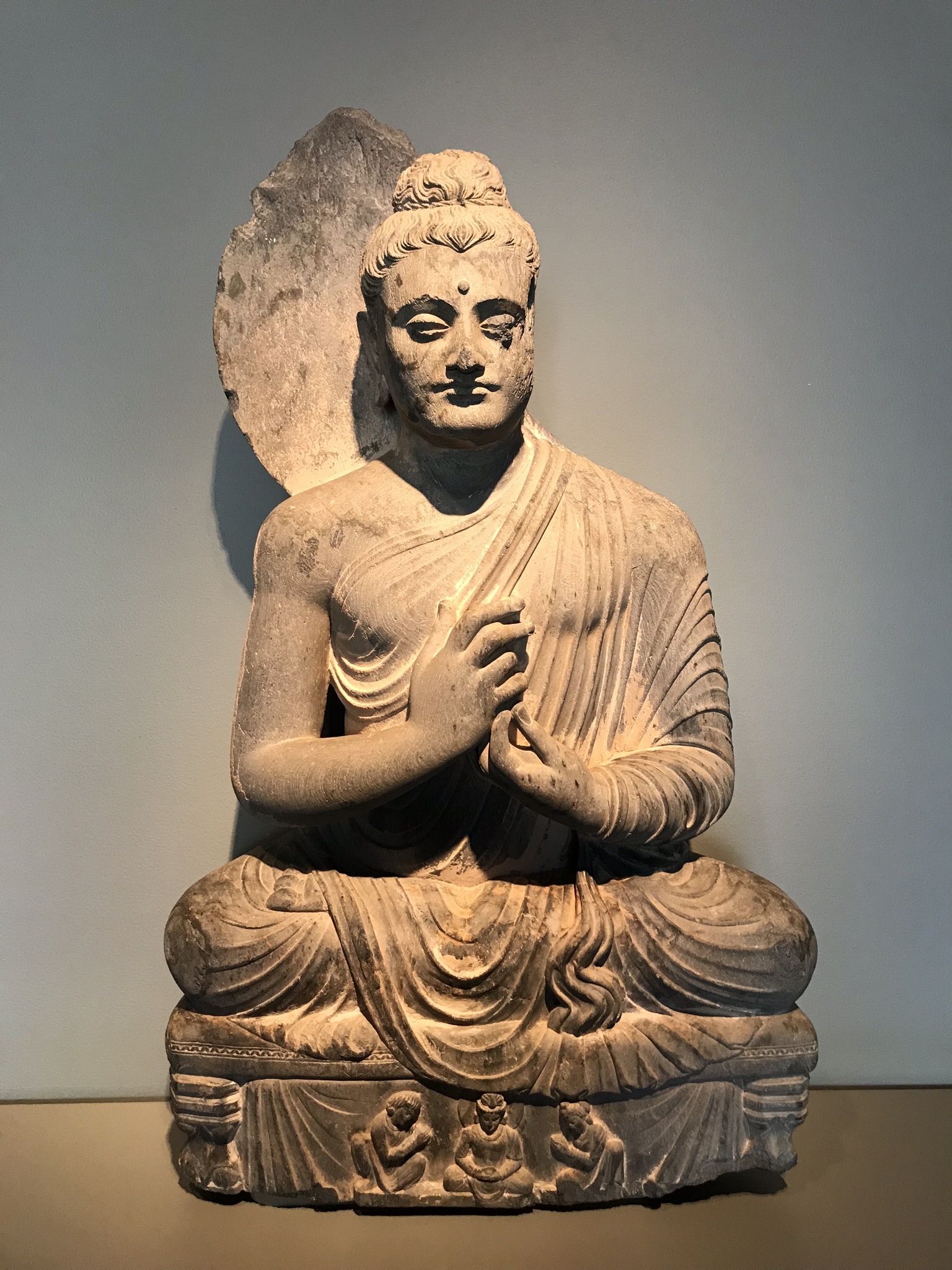 A seated Buddha from the Peshawar Valley (Jamalgarhi) at the San Francisco Asian Art Museum. Dated between 300 and 500 CE.